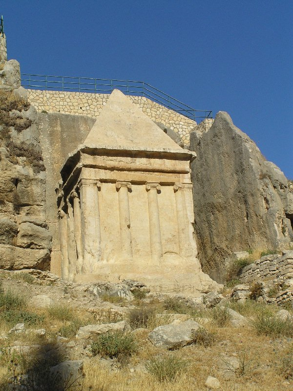 Tomb of Zkaria, on Mt. Olives slopes, Jerusalem Photographed by Eman on June 2005